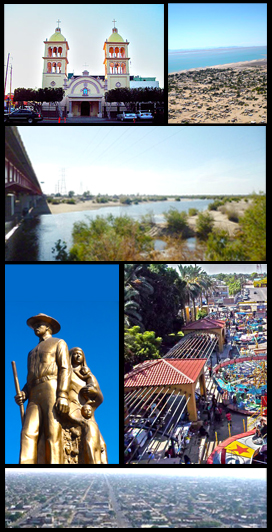 collage de las partes mas emblematicas de San Luis Rio Colorado